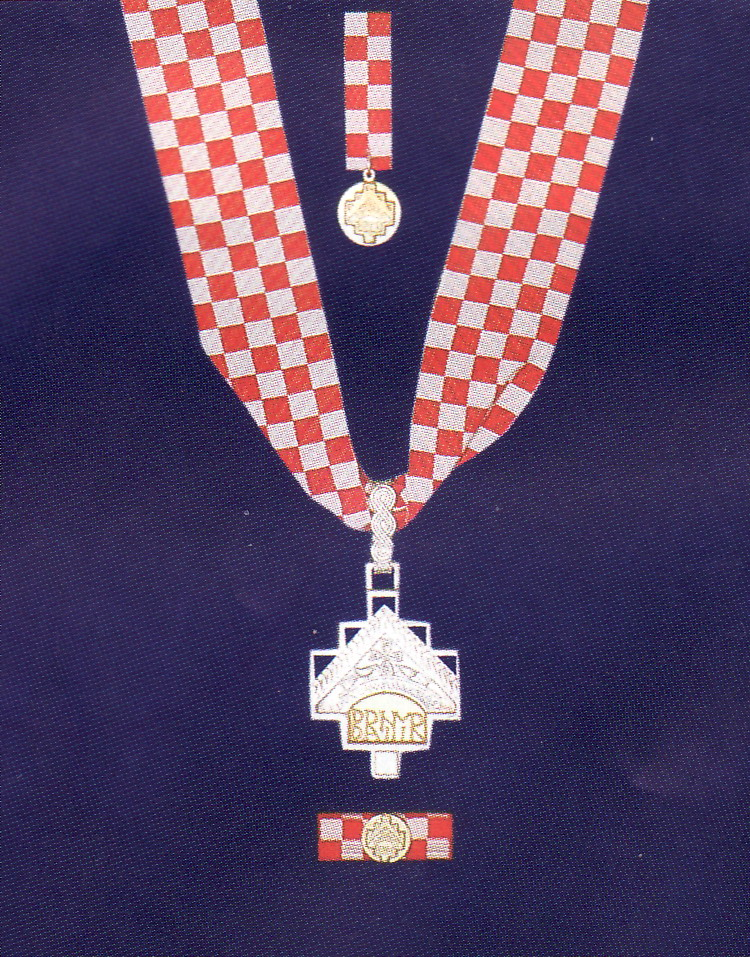 Neck Badge and Ribbon of Order of Duke Branimir